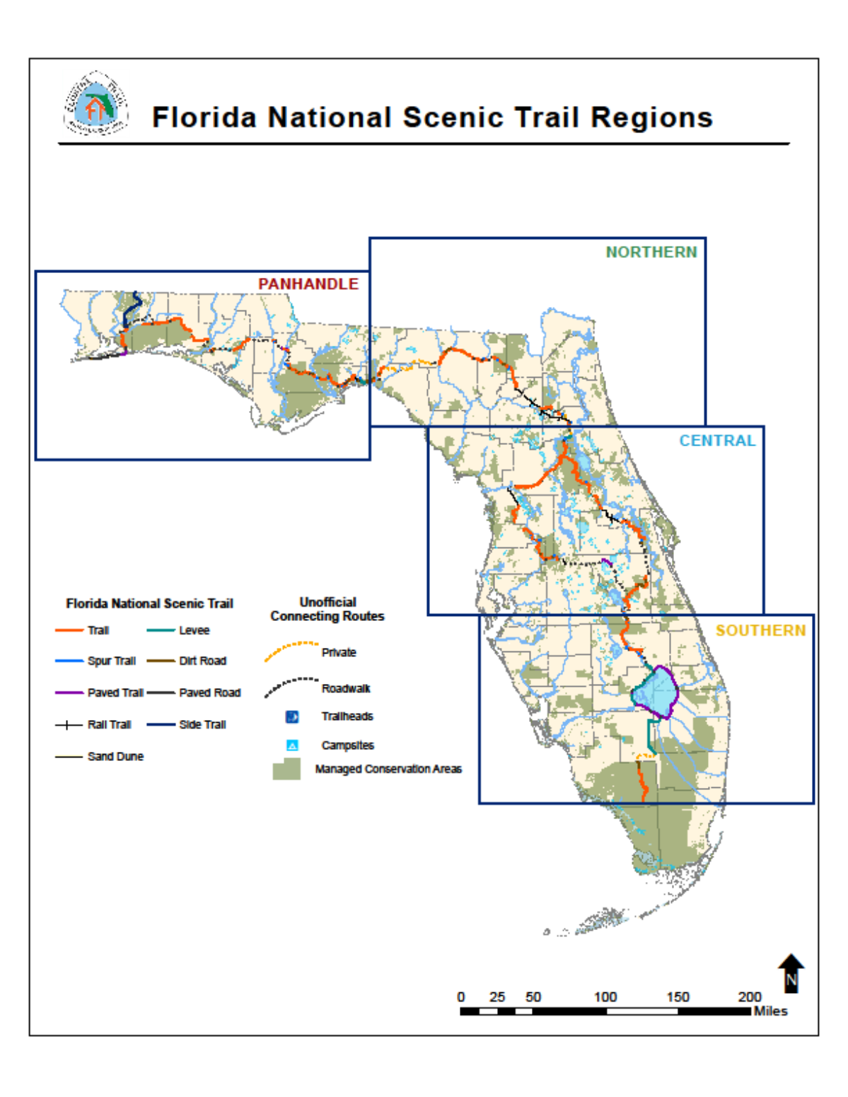 This images shows the FNST divided into four regions. It comes from the 2013 State of the Trail Report published by the USDA Forest Service National Forests in Florida.